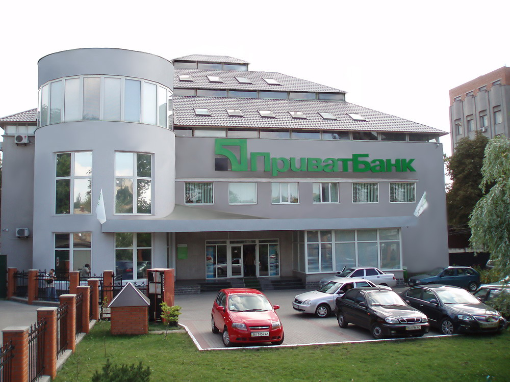 PrivatBank in Kirovohrad